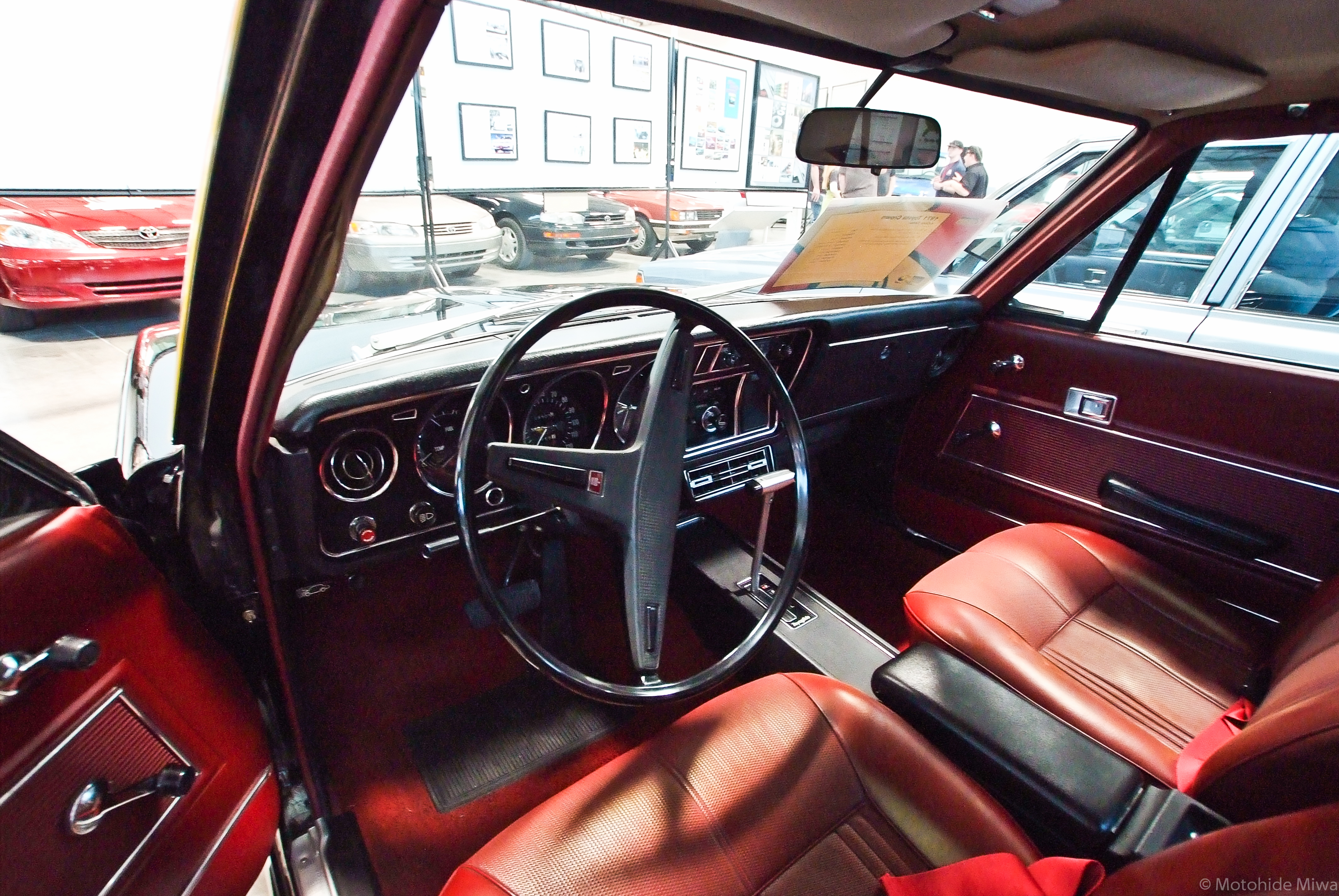 Toyopet Crown Super Saloon